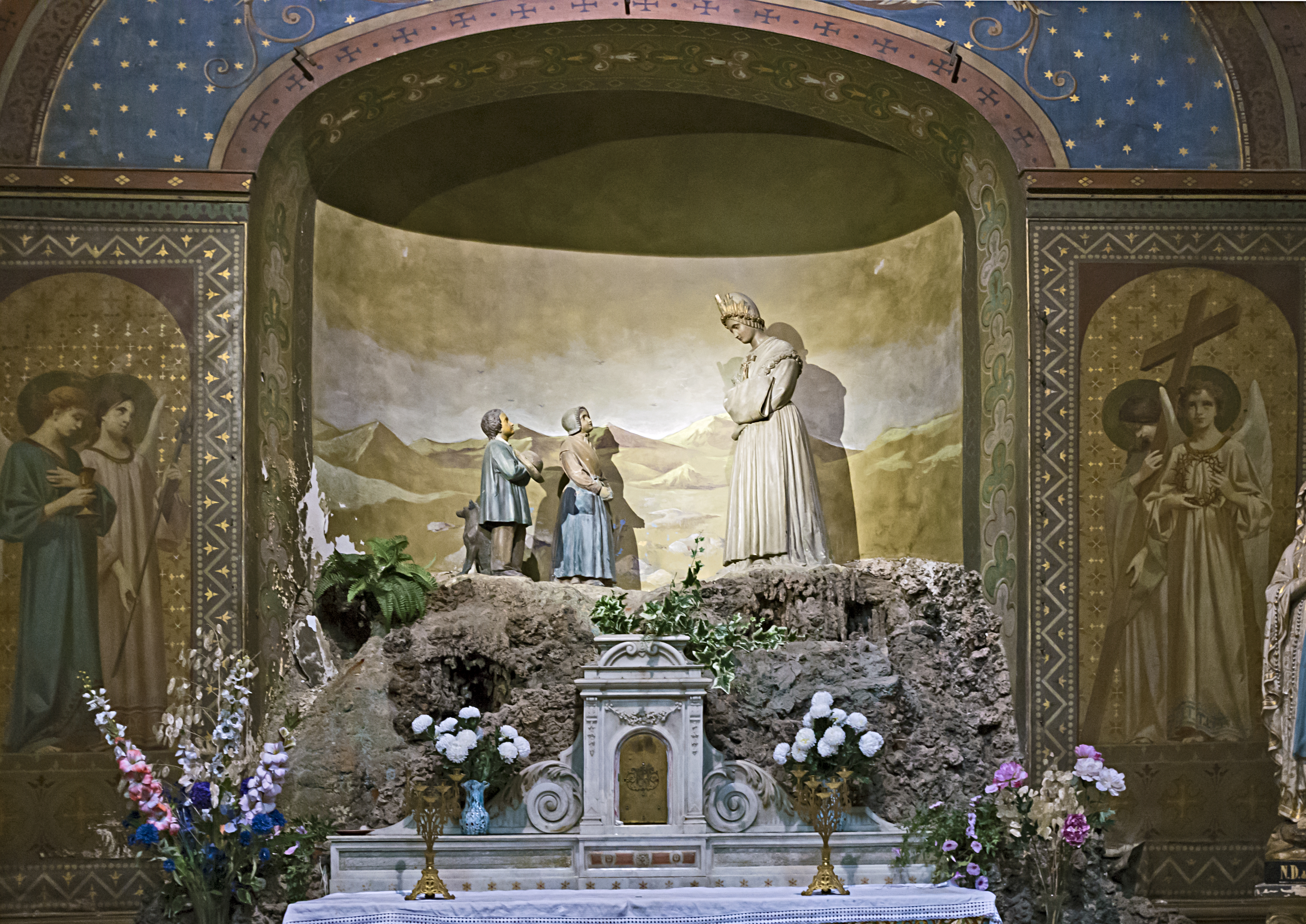 Church Saint-Exupère from Toulouse, chapelle Notre-Dame de la Salette